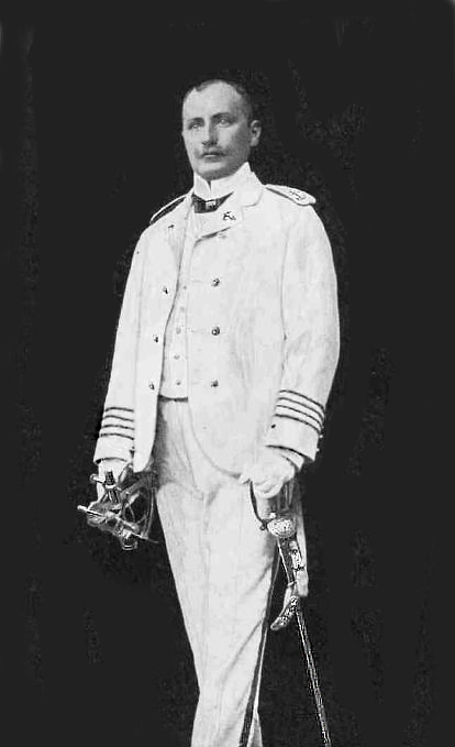 Fotografía de álbum familiar, también expuesta en el libro "Campaña del Acre" (Arthur Posnansky, 1904)